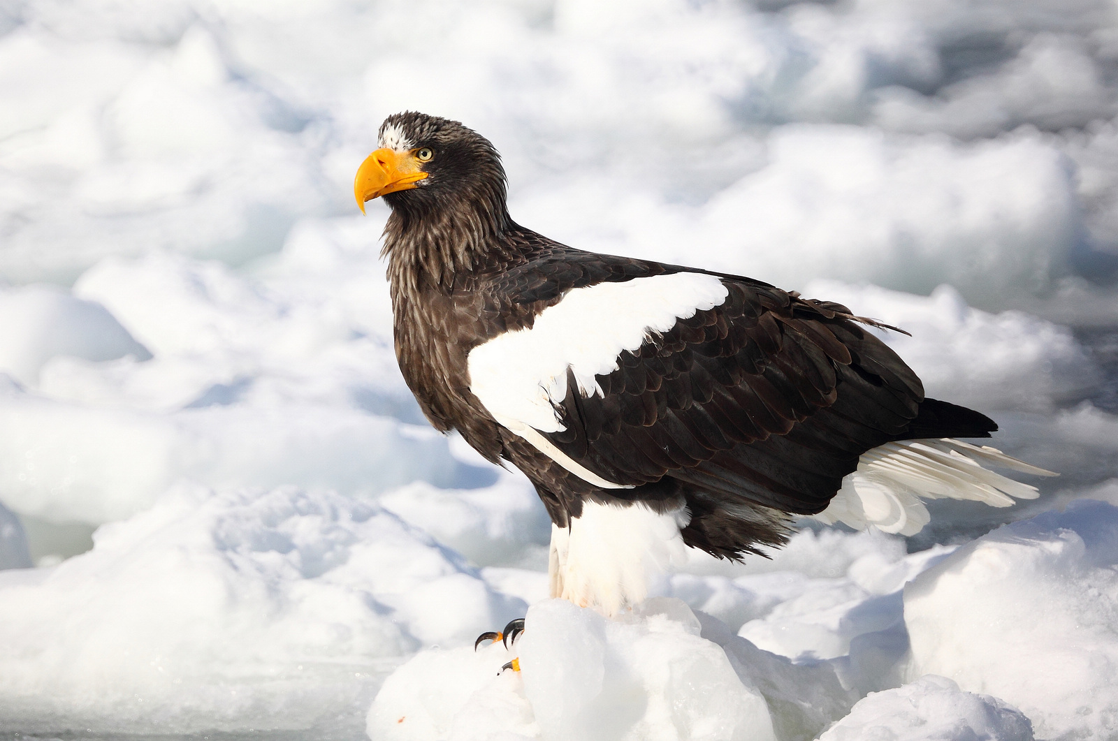 Steller's Sea Eagle in Hokkaido